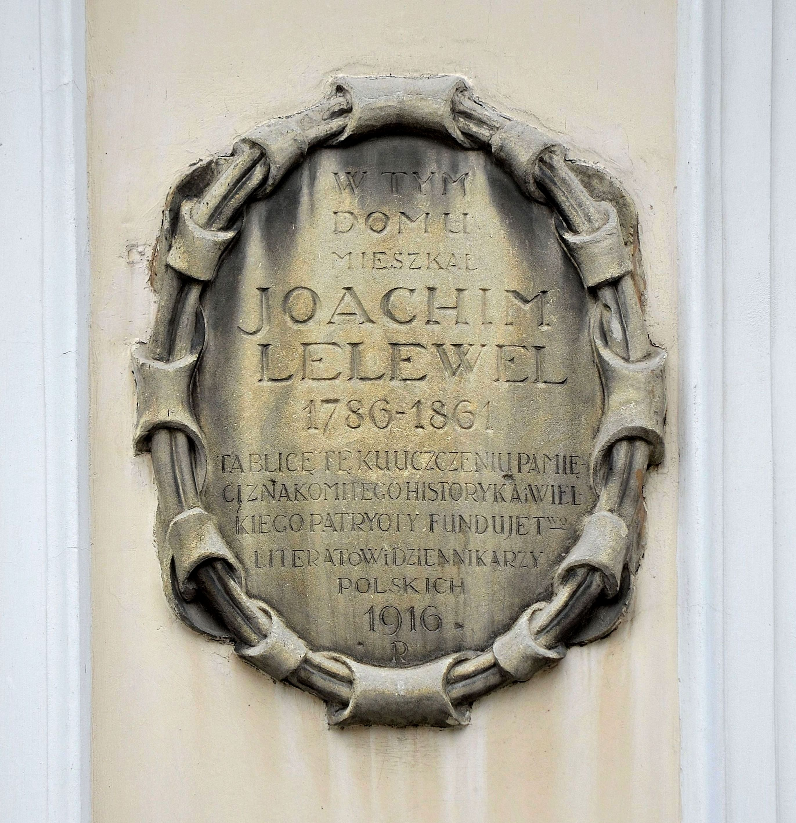 Plaque in memory of Joachim Lelewel at 4 Długa Street in Warsaw